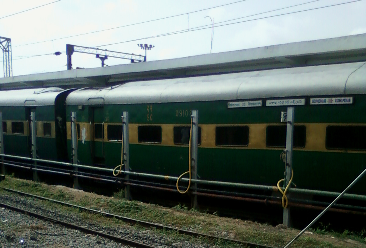 (12739/12740) VSKP-SC Garibrath Express at Secunderabad railway station